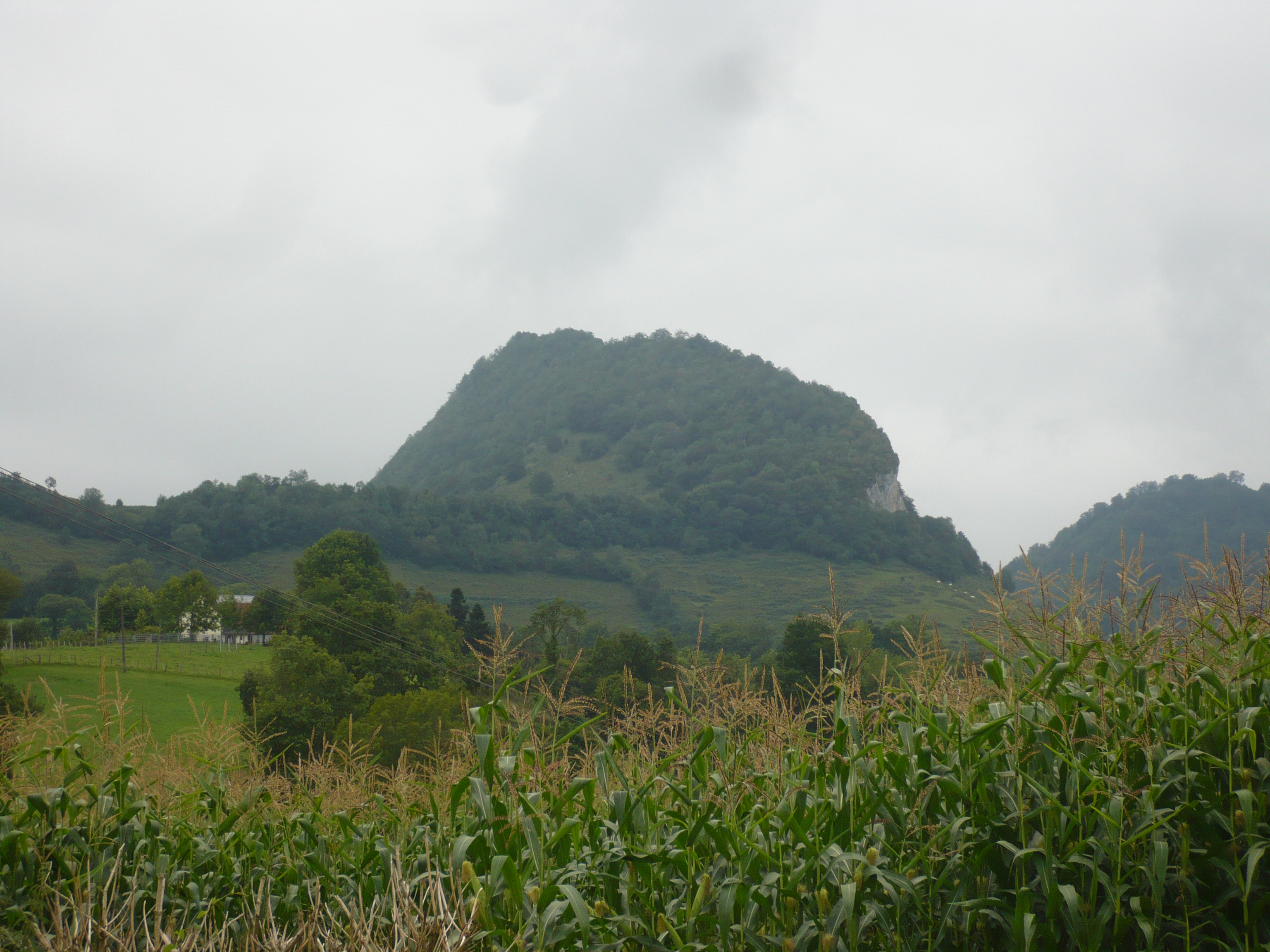 Mt. Hargibele (fr. Arguibelle, Harguibel) seen from the north, picture taken from the road between Montori (fr. Montory, Soule, Basque Country) and Lana en Varetons (oc)- Lanne-en-Barétous (fr) (Bearn, Occitania).